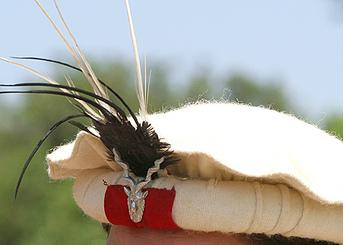 Pakul with peacock plume stuck in the folds